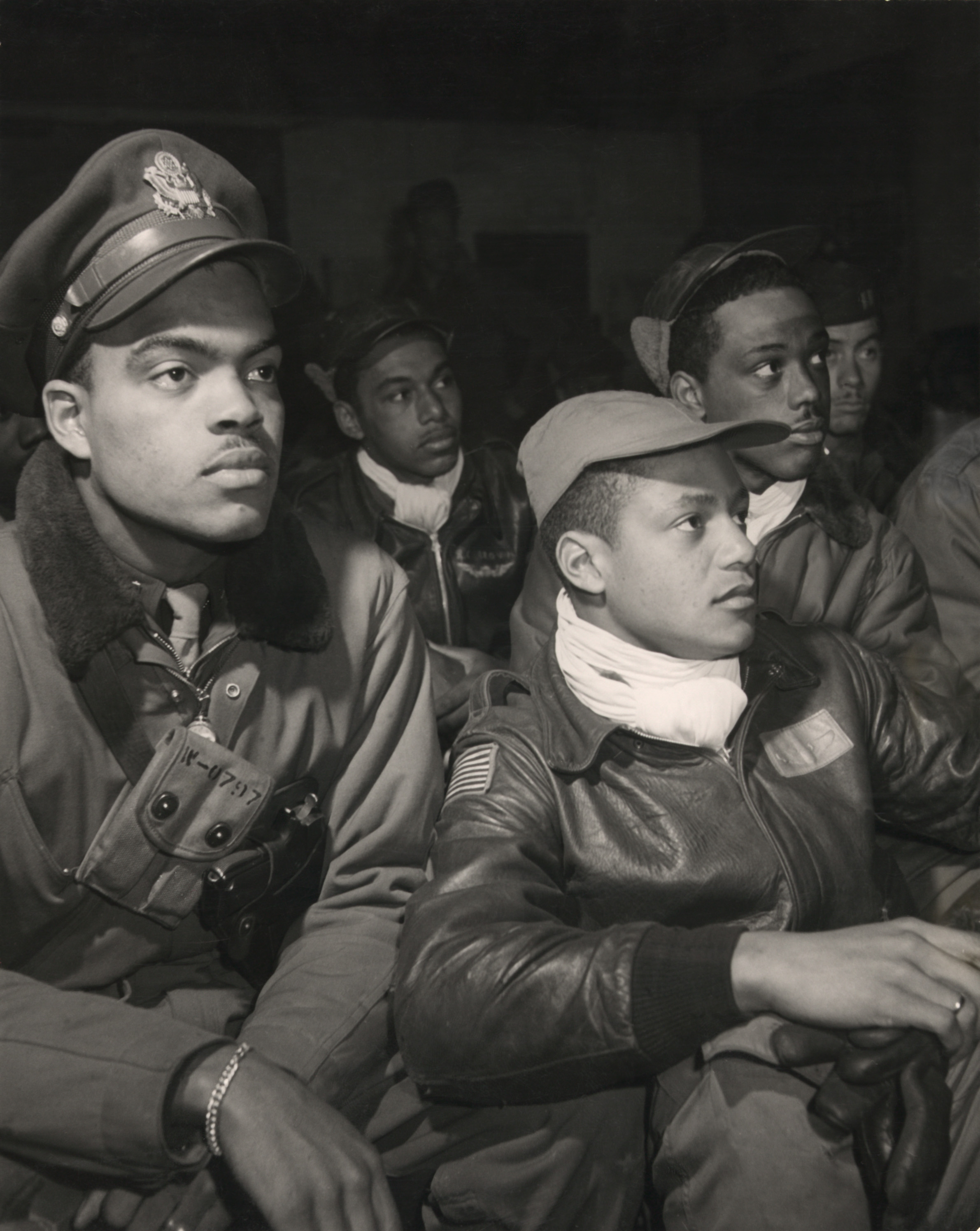 Photograph shows members of the 332nd, from left to right: Robert W. Williams, Ottumwa, IA, Class 44-E; (leather cap) William H. Holloman, III, St. Louis, Mo., Class 44-?; (cloth cap) Ronald W. Reeves, Washington, D.C., Class 44-G; (leather cap) Christopher W. Newman, St. Louis, MO, Class 43-I; (flight cap) Walter M. Downs, New Orleans, LA, Class 43-B. (Source: Photographer's notes and Tuskegee Airmen 332nd Fighter Group pilots.)